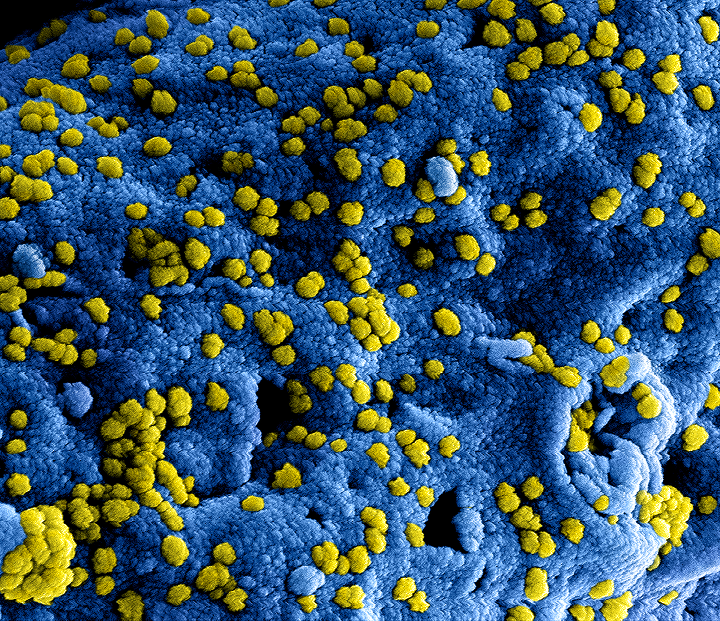 Colorized scanning electron micrograph of Middle Eastern Respiratory Syndrome virus particles attached to the surface of an infected VERO E6 cell. Credit NIAID